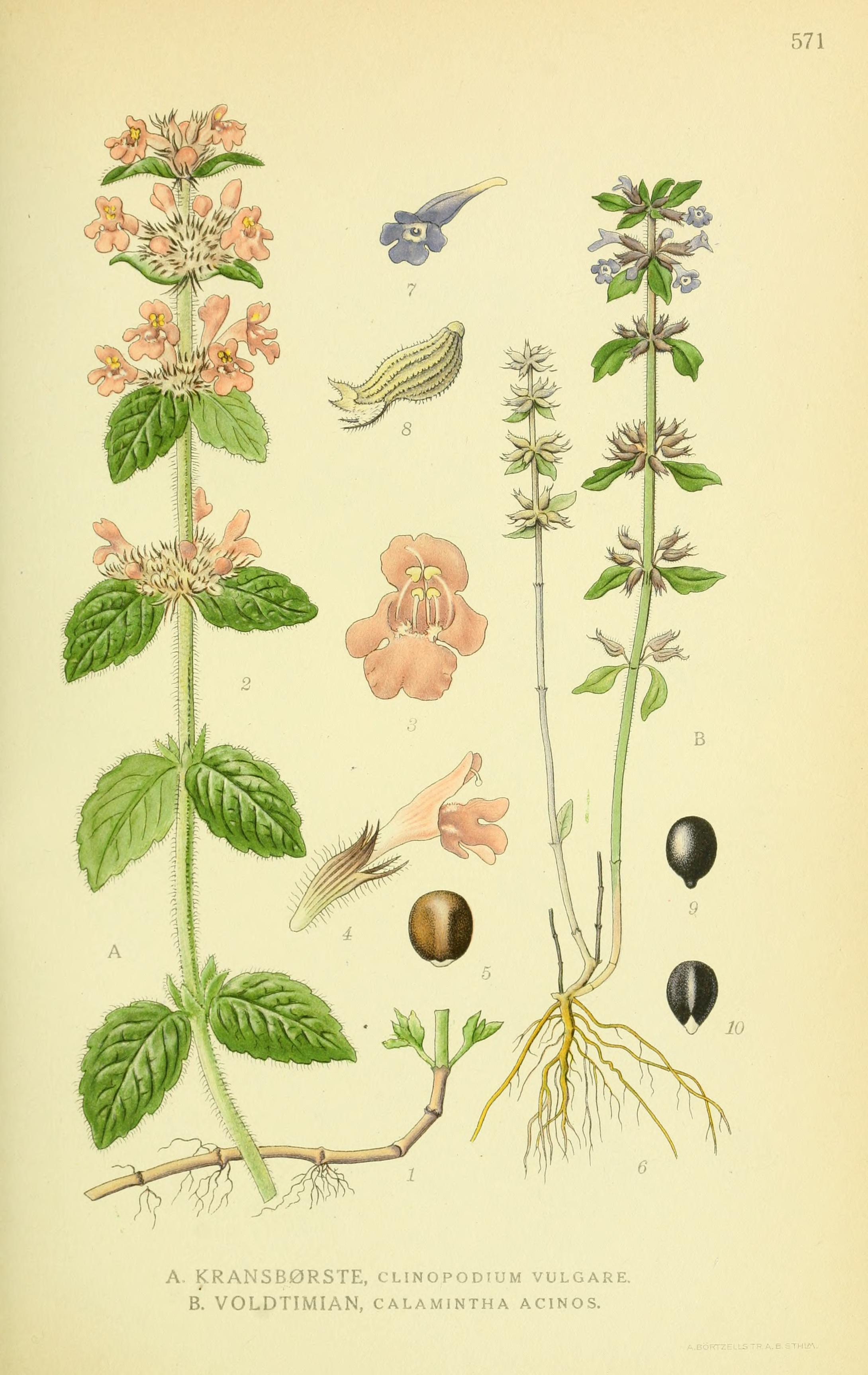 Title: Billeder af nordens flora Year: 1917 (1910s) Authors: Mentz, August, 1867-1944; Ostenfeld, C. H. (Carl Hansen), 1873-1931 Subjects: Plants; Plants; Plants Publisher: København, G. E. C. Gad's forlag Text Appearing Before Image: 571 Text Appearing After Image: A, KRANSBØRSTE, clinopodium vulgare. B. VOLDTIMIAN, calamintha acinos.